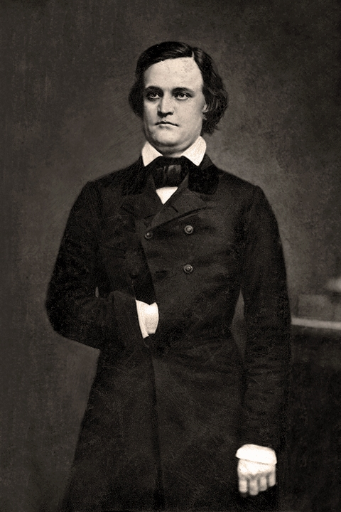 U.S. Vice-President John Cabell Breckinridge